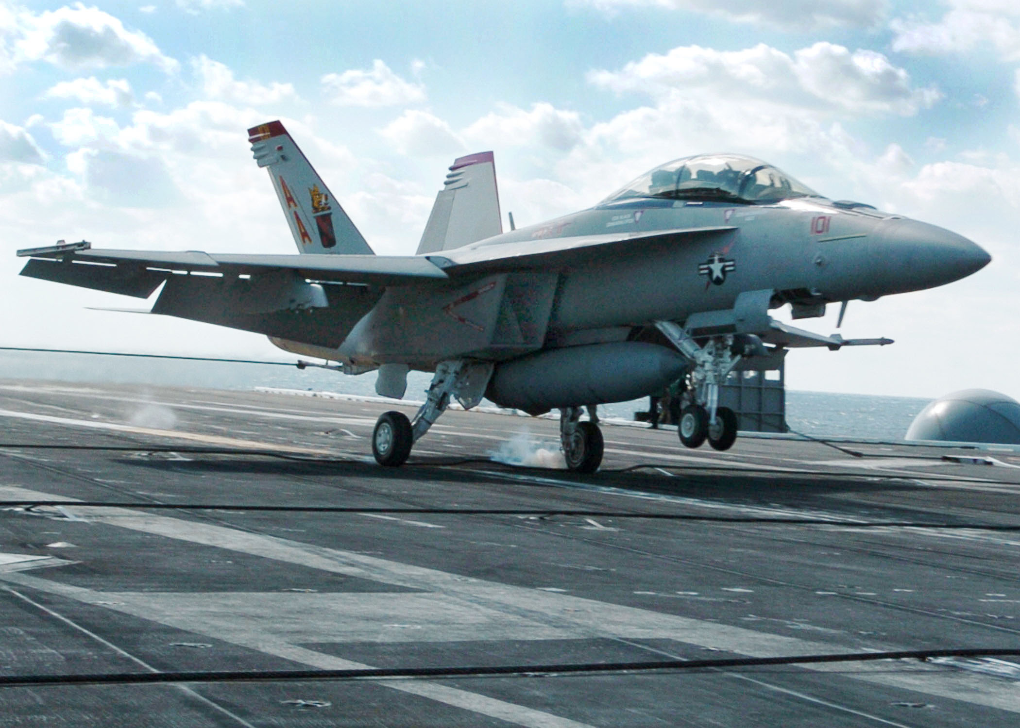 An F/A-18F Super Hornet, assigned to the "Red Rippers" of Strike Fighter Squadron Eleven (VFA-11), catches an arresting wire with its tailhook aboard the Nimitz-class aircraft carrier USS Dwight D. Eisenhower (CVN 69). Eisenhower is underway conducting Flight Deck Certification after completing a four-month Post Shakedown Availability.